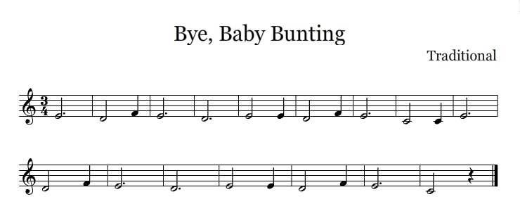 The main melody of "Bye, Baby Bunting"